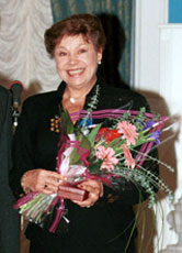 Larissa Latynina, Russian-Ukrainian and former Soviet gymnast